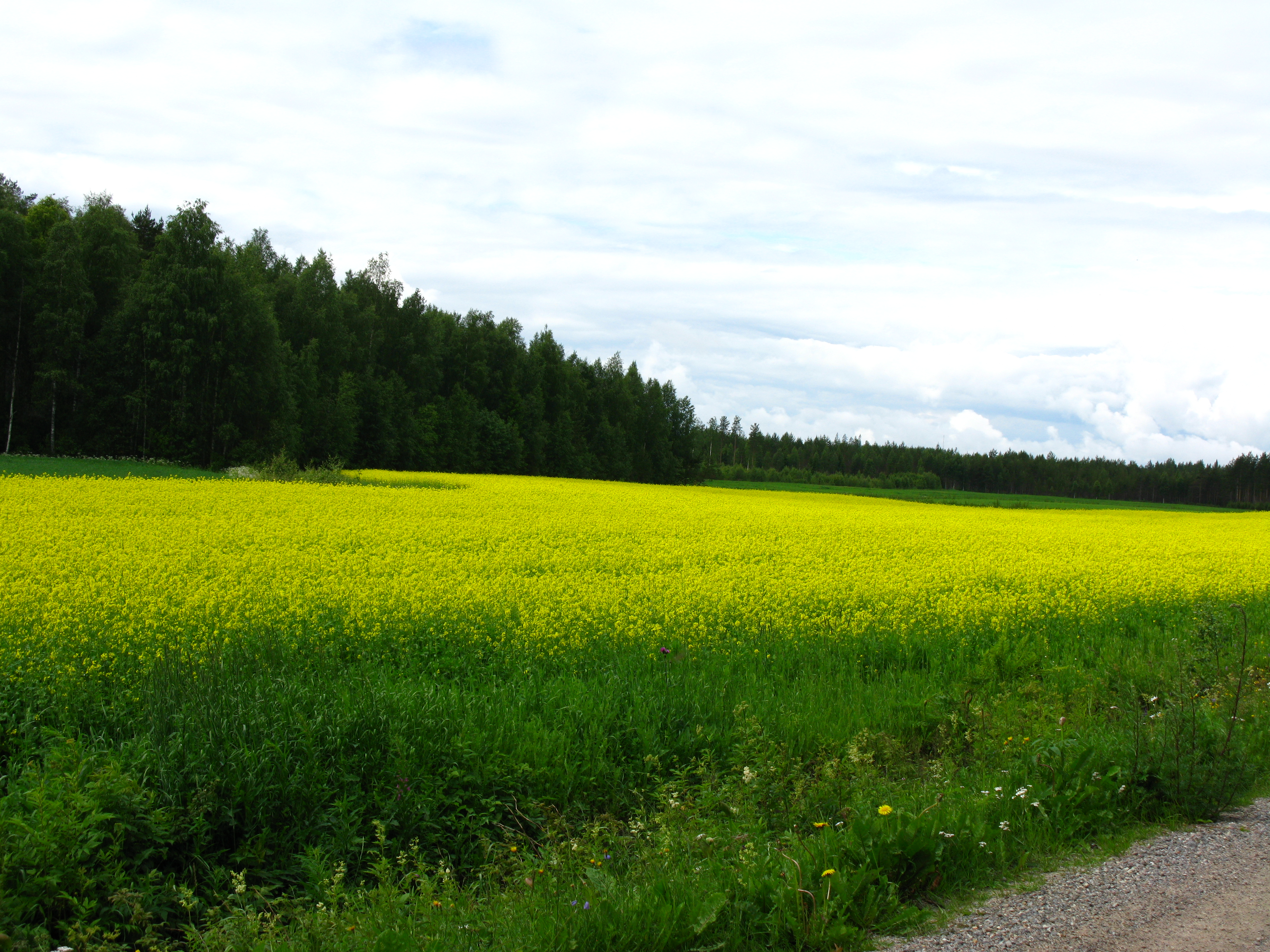 Turnip rape (Brassica rapa subsp. oleifera) field in Parikkala, Finland